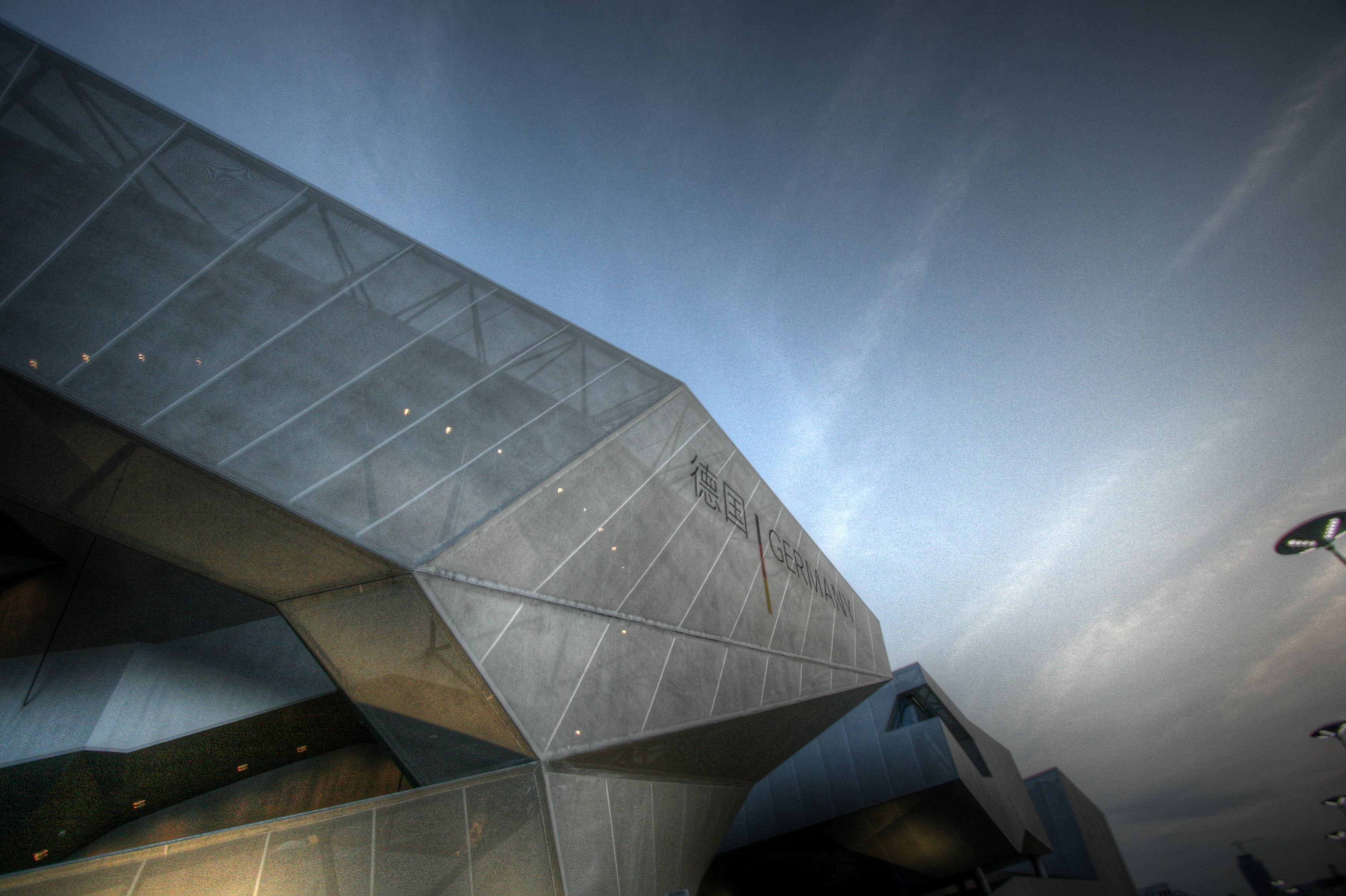 Germany Pavilion at the Shanghai Expo 2010.